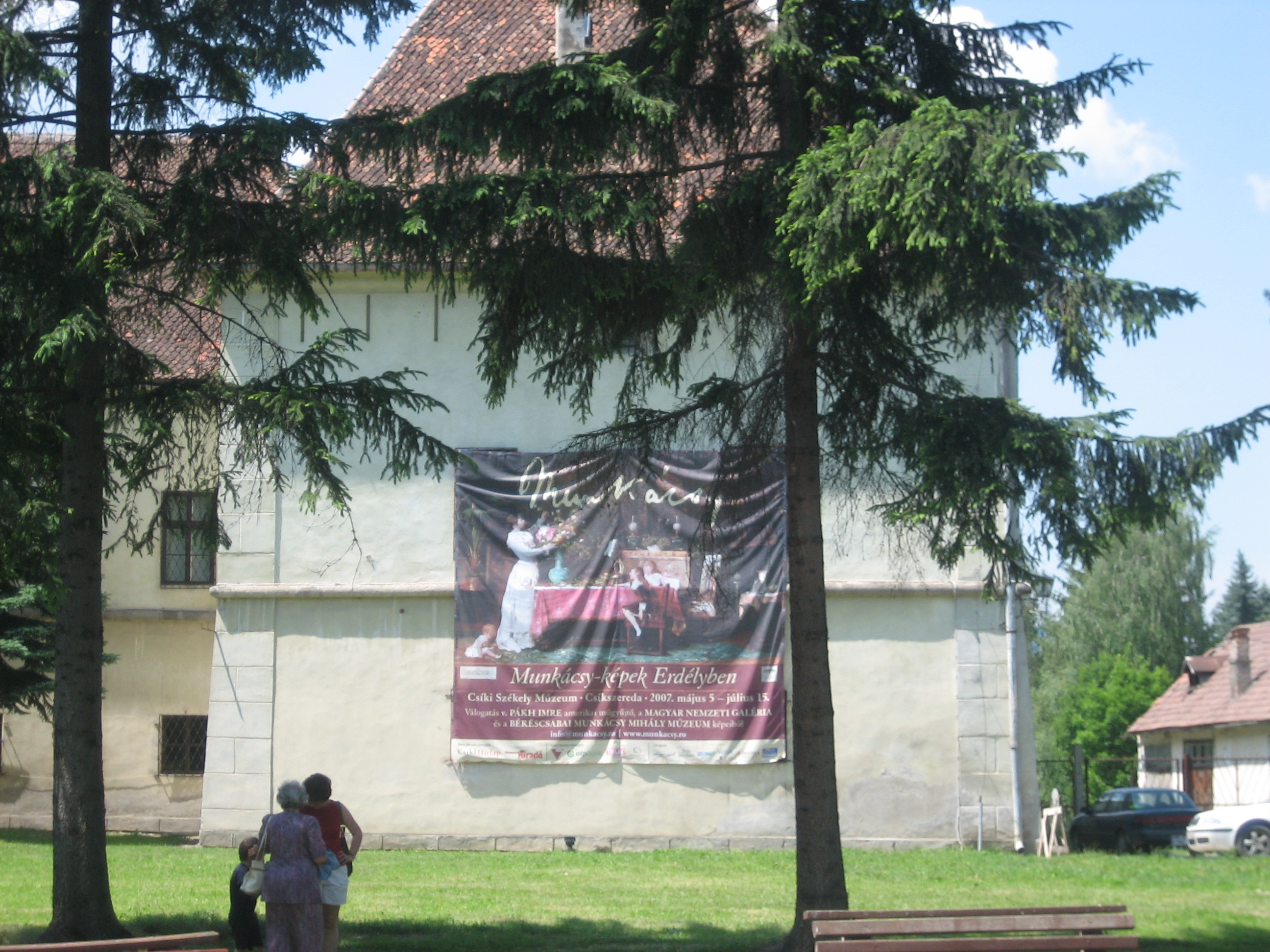 The Mikó Castle in Csíkszereda